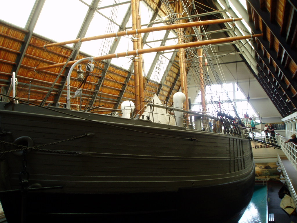 It's a picture of the Fram ship, taken from one of the sides